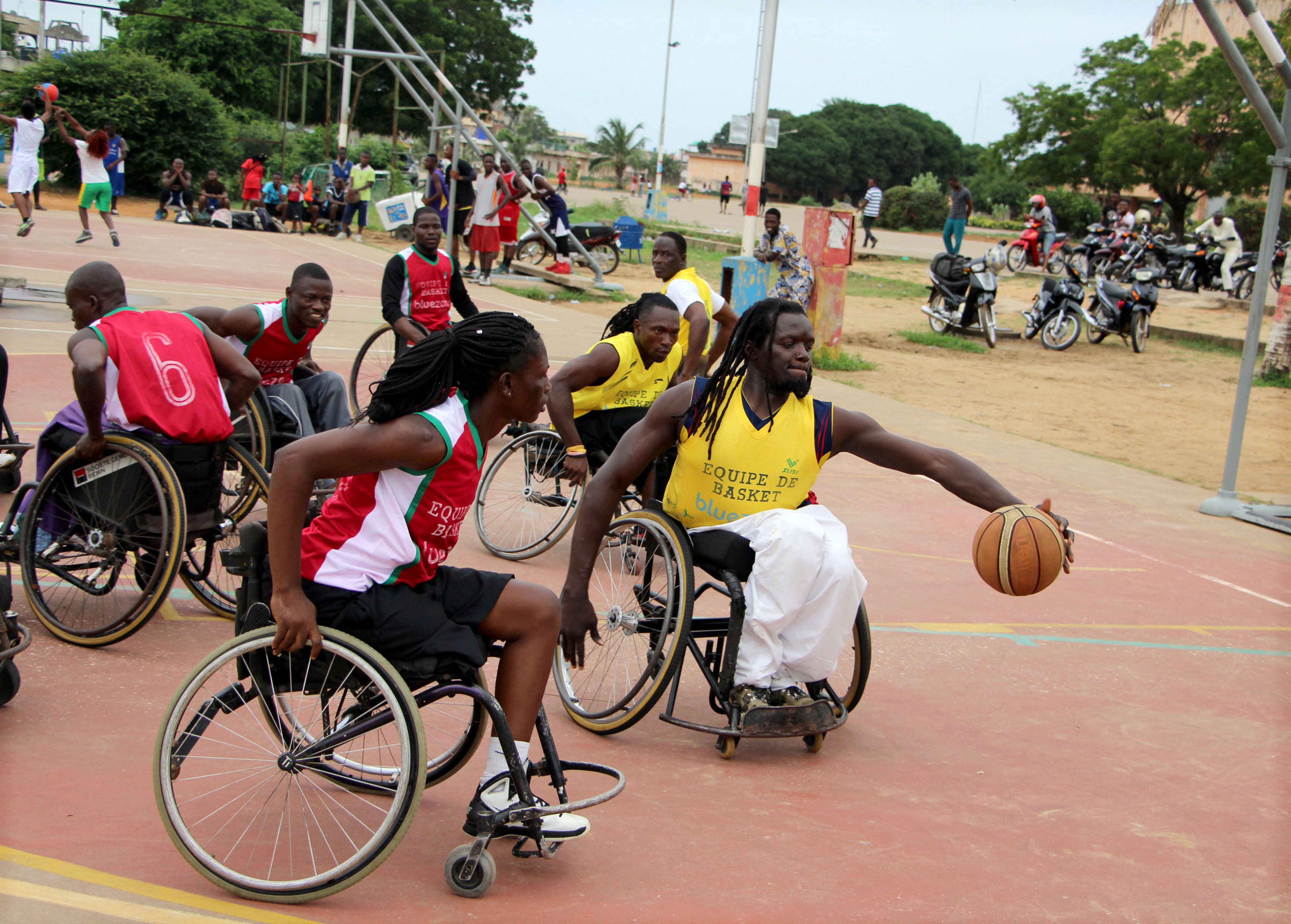 disabled people practice to win the championship title This is an image with the theme "Africa on the Move or Transport" from: Benin